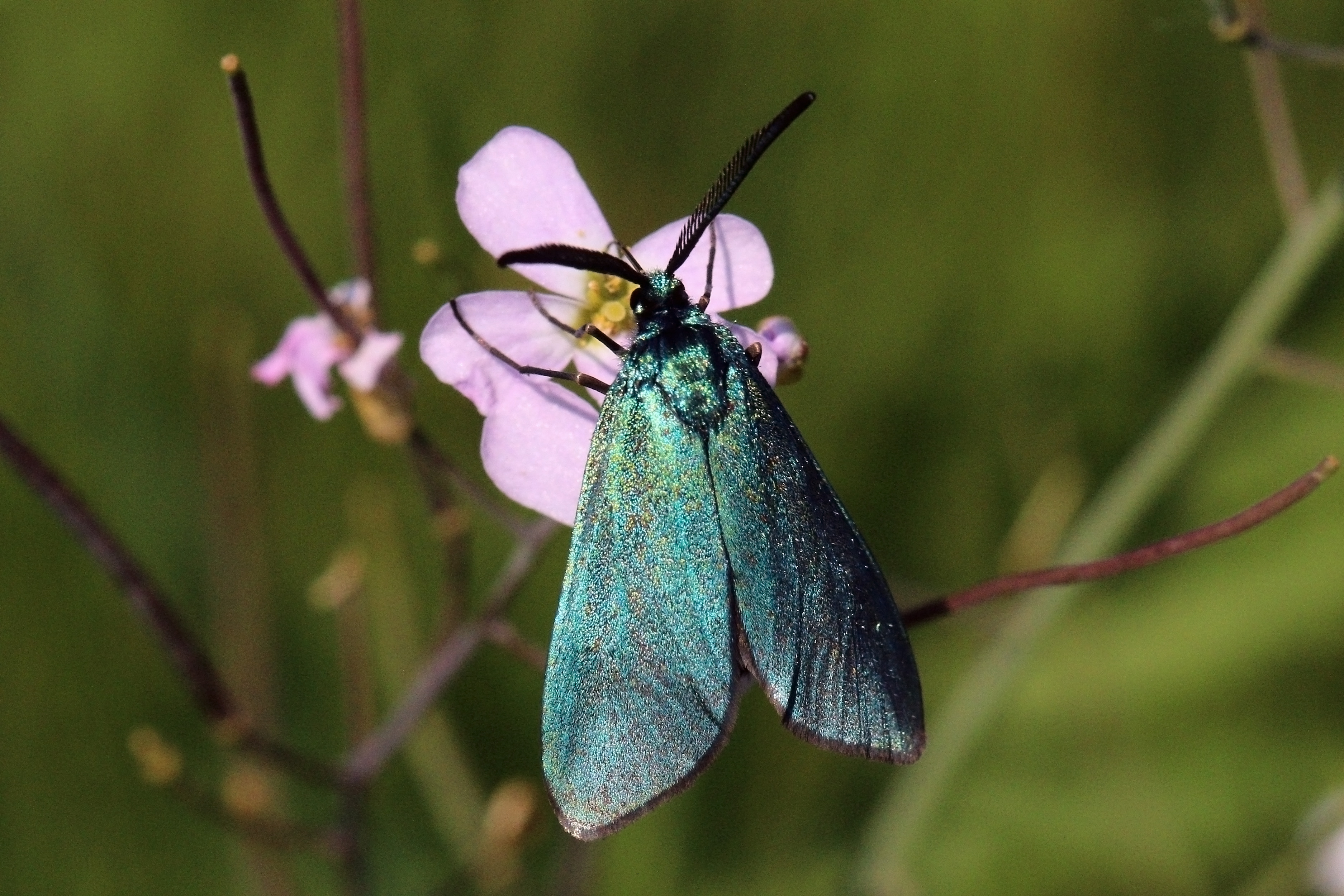 Green forester (Adscita statices), Kampinos Forest, Poland